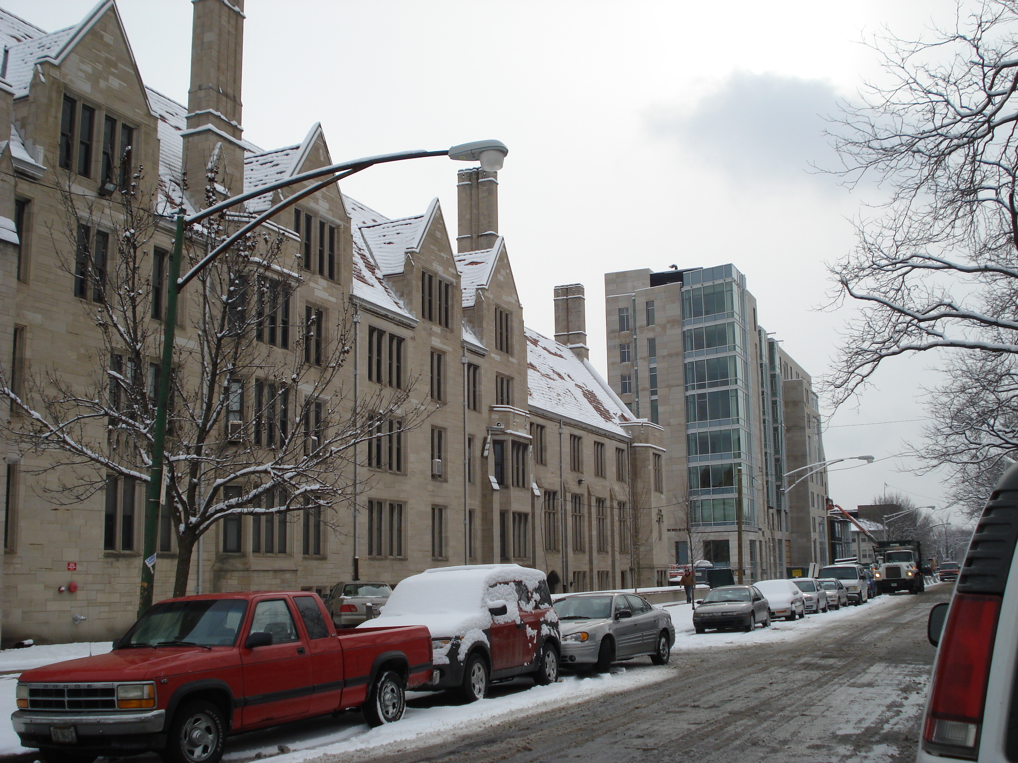 New dorm behind Burton-Judson